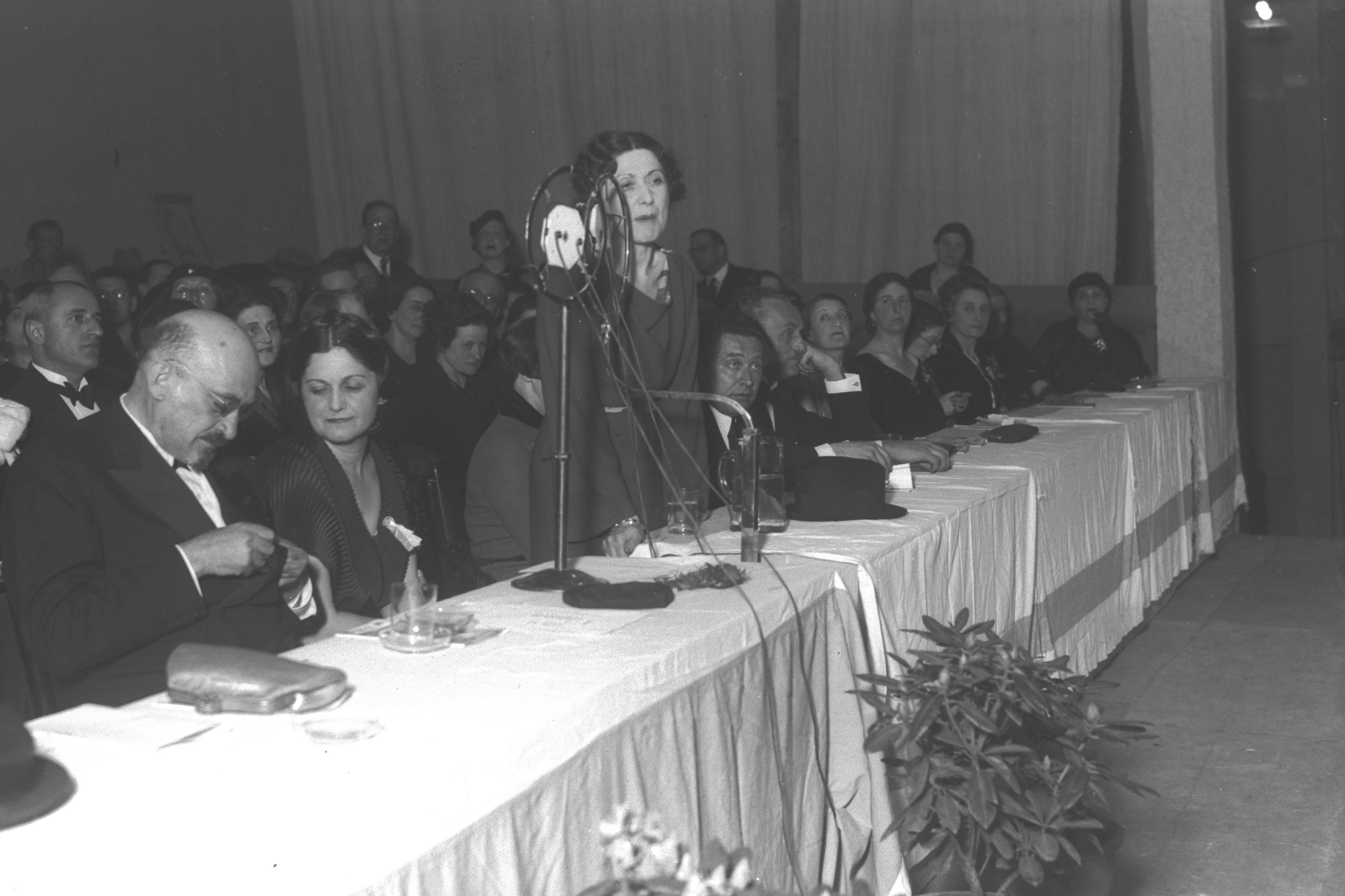 REBECCA SIEFF SPEAKING DURING THE OPENING SESSION OF THE 8TH CONGRESS OF THE WORLD "WIZO" ORGANIZATION IN TEL AVIV. ON THE L, PROF. HAIM WEIZMAN. רבקה סיף נושאת דברים במושב הפתיחה של הועידה השמינית של ארגון "ויצו" בתל אביב. משמאל, פרופסור חיים ויצמן.